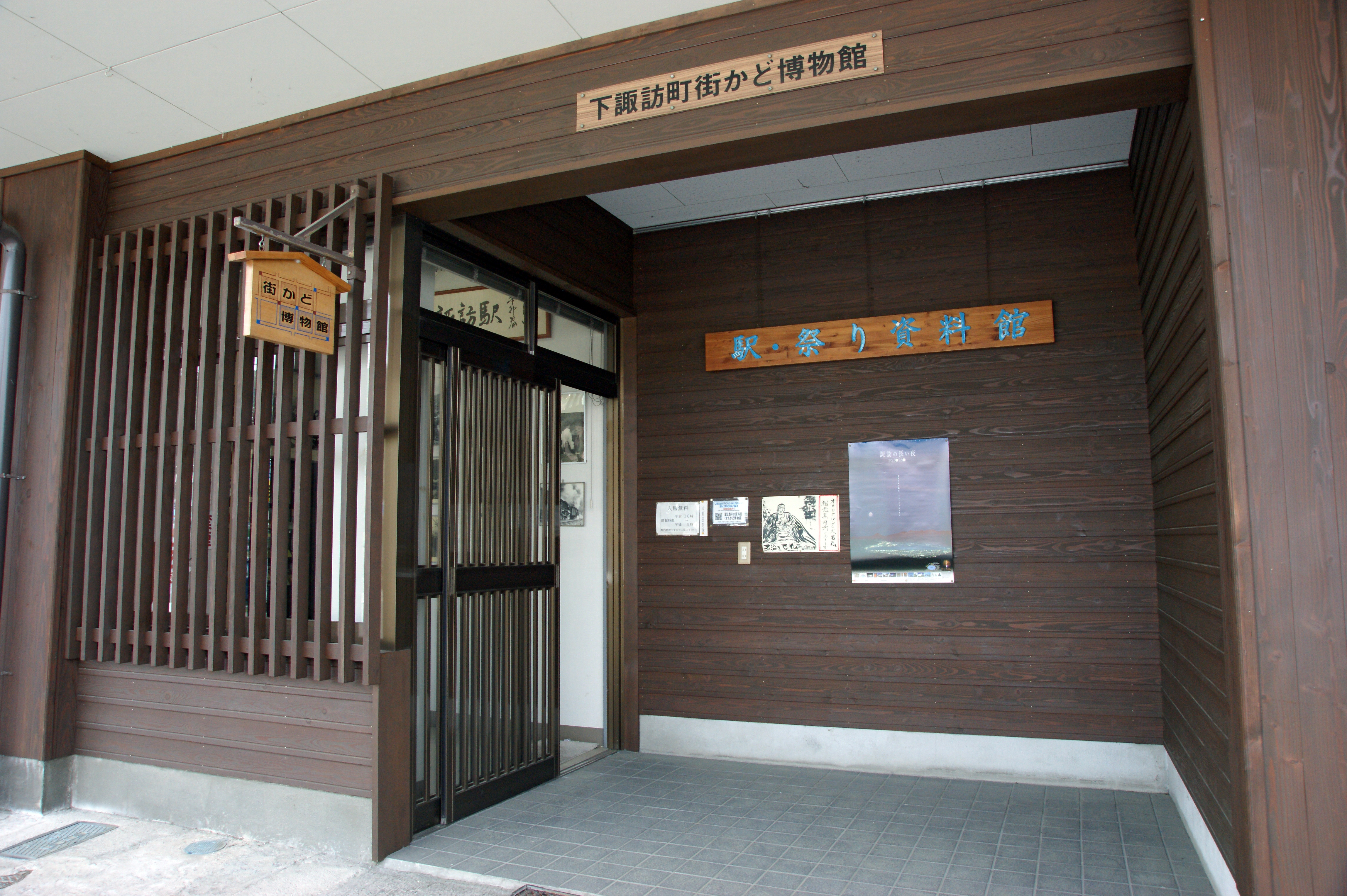 Shimosuwa Station, Shimosuwa, Nagano prefecture, Japan